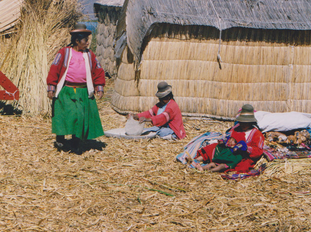 Uros women of a island in Peru